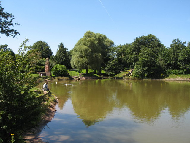 Princes Park Lake Princes Park was the idea of Richard Vaughan Yates and the first public park to be designed by Joseph Paxton. The park was a private venture financed by the sale of building plots for the grand villas around the park's periphery. The serpentine lake was formed by damming Dickinson’s Dingle, its contours giving the impression of a long, winding river and many of the villas overlooked this tranquil scene. It was also the site of the ornamental Swiss boathouse, rockeries and the Chinese bridge which are all long gone, the ruins of the boathouse can be seen behind the fisherman. The park opened in 1842 but was not finished until 1845, public access was limited to certain areas until the last century.